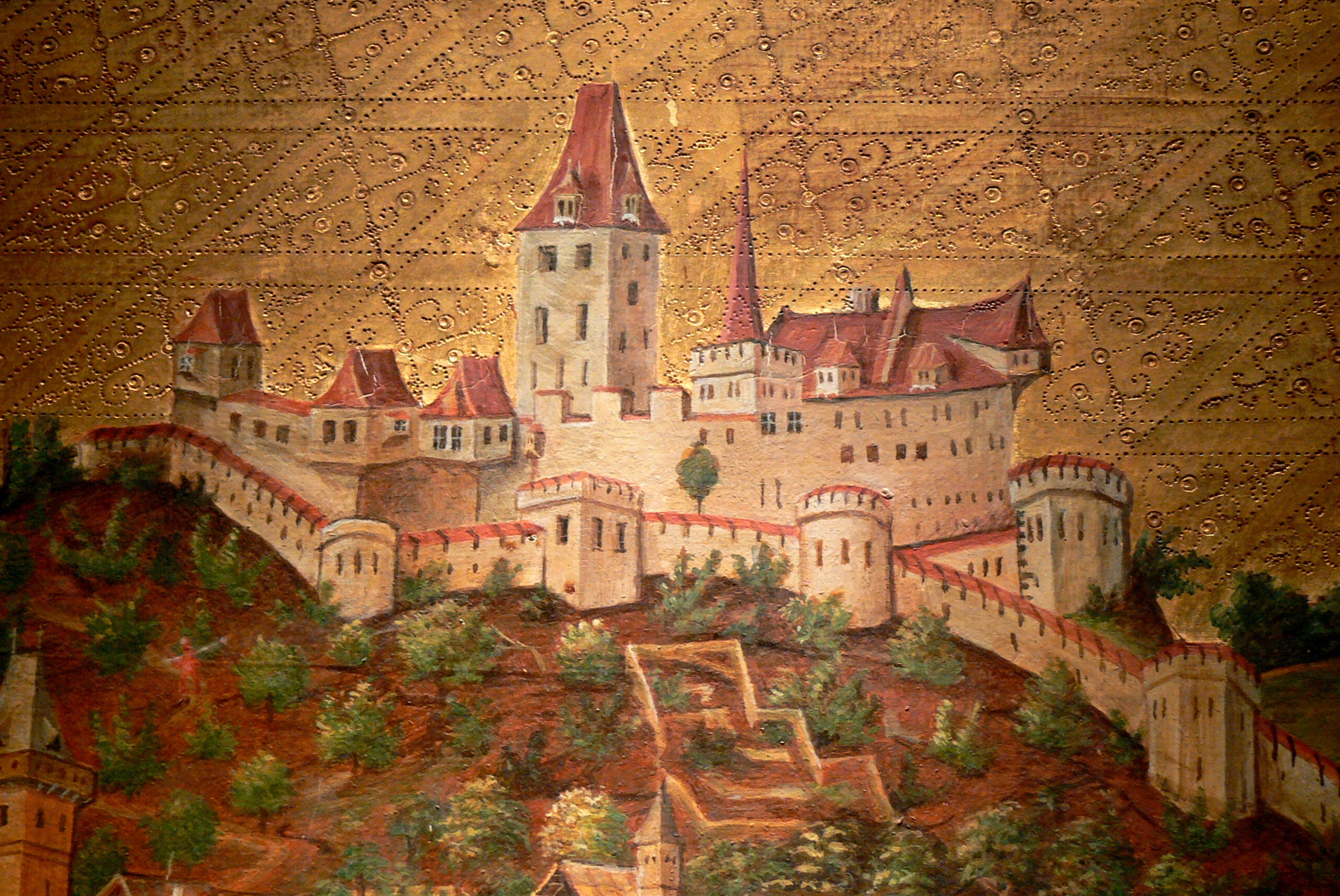 Oberhausmuseum ( Passau ). View of Oberhaus castle ( 15th century )